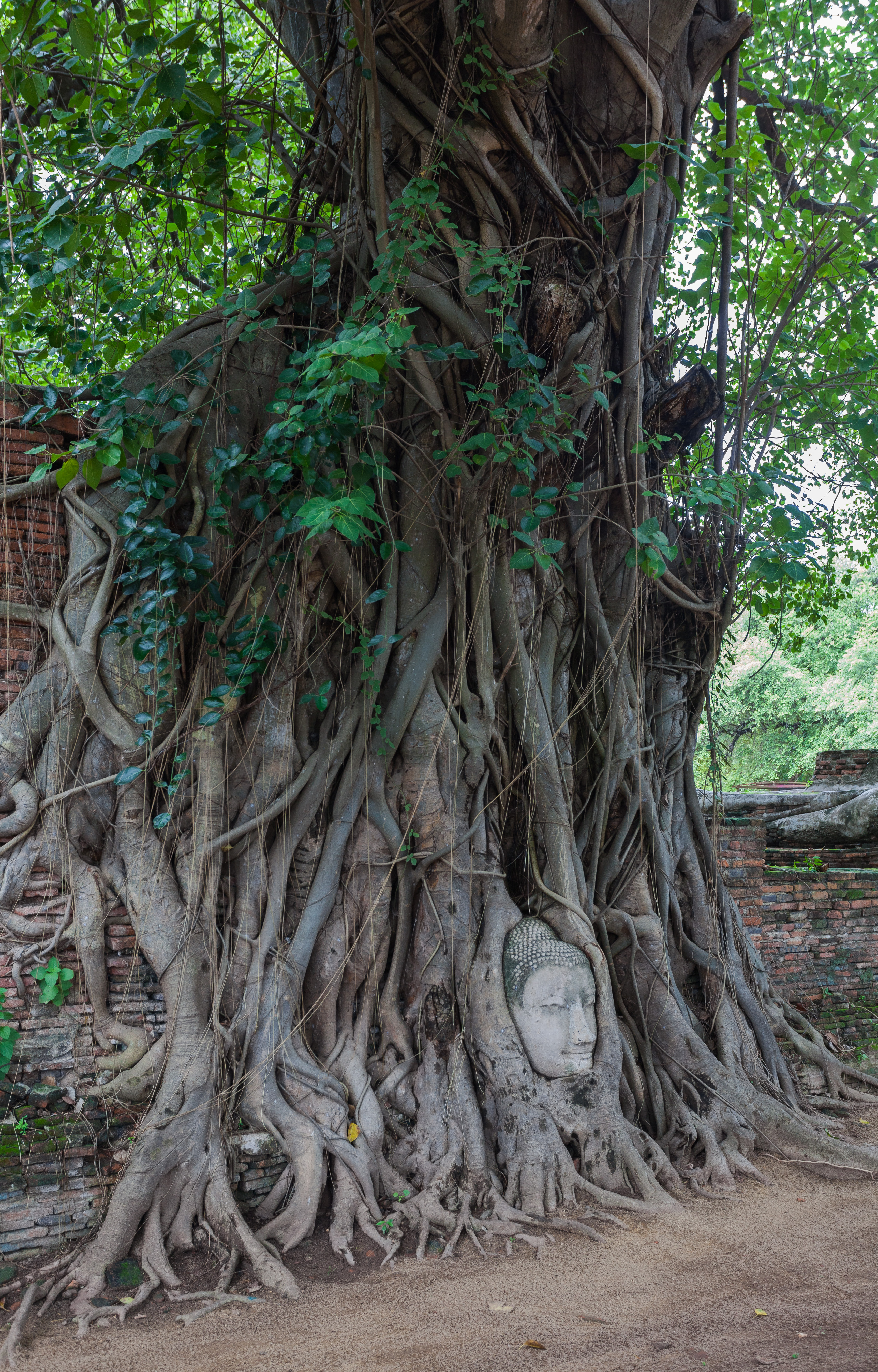 Mahathat Temple, Ayutthaya, Thailand